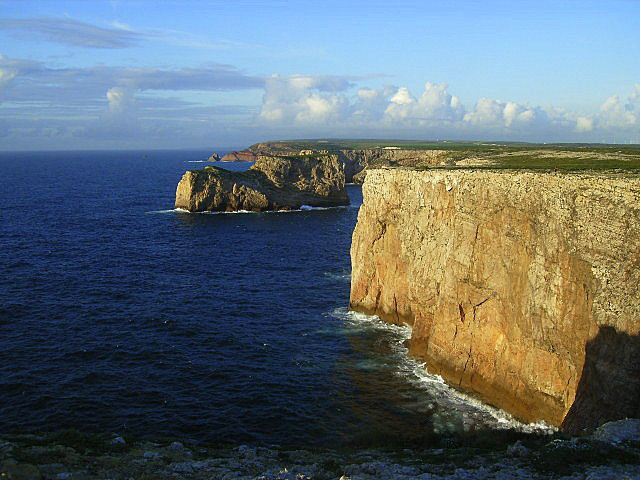 On Cape St. Vincent - the southwesternmost point in Europe. View to the north from Cabo de São Vicente, Algarve, Portugal